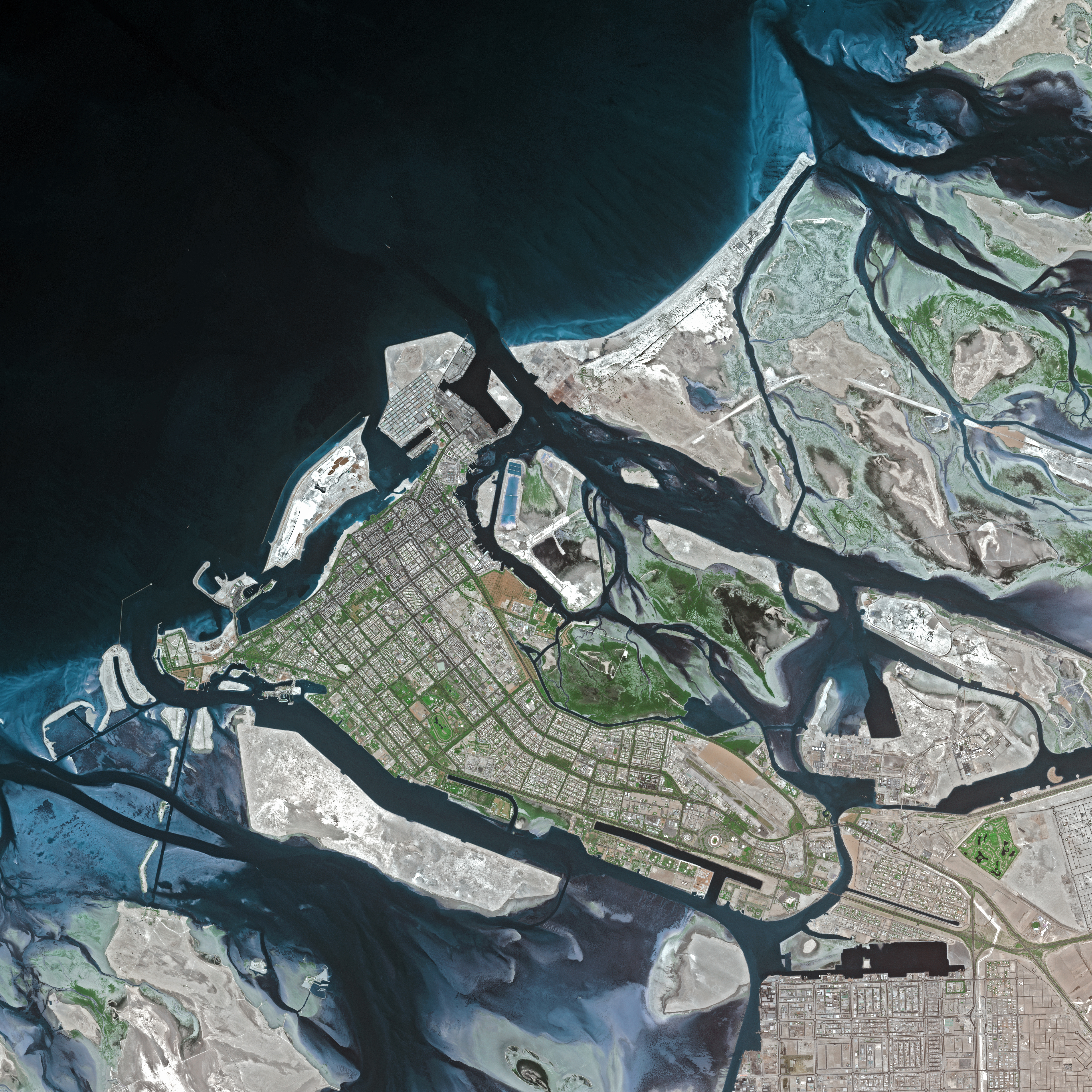 Abu Dhabi by SPOT Satellite